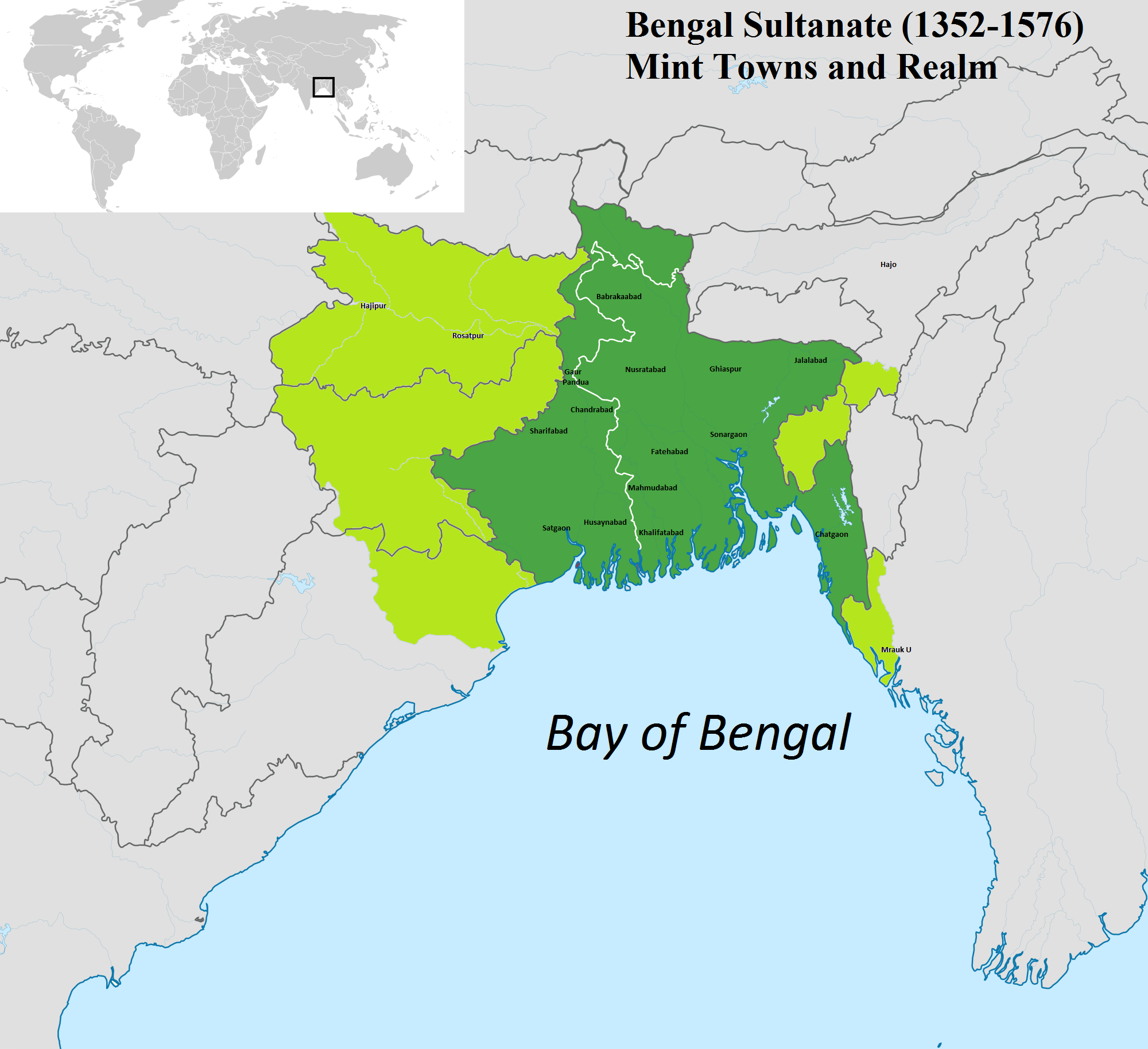 Bengal proper with prominent mint towns and neighboring regions which were ruled by the Bengal Sultanate